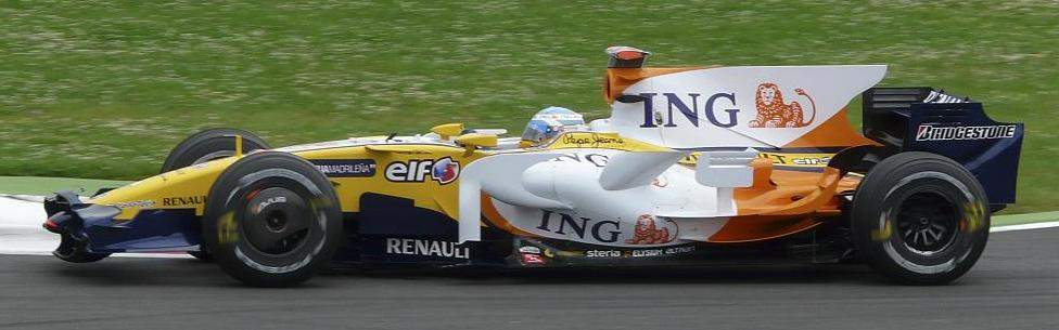 Fernando Alonso driving for Renault F1 at the 2008 French Grand Prix.